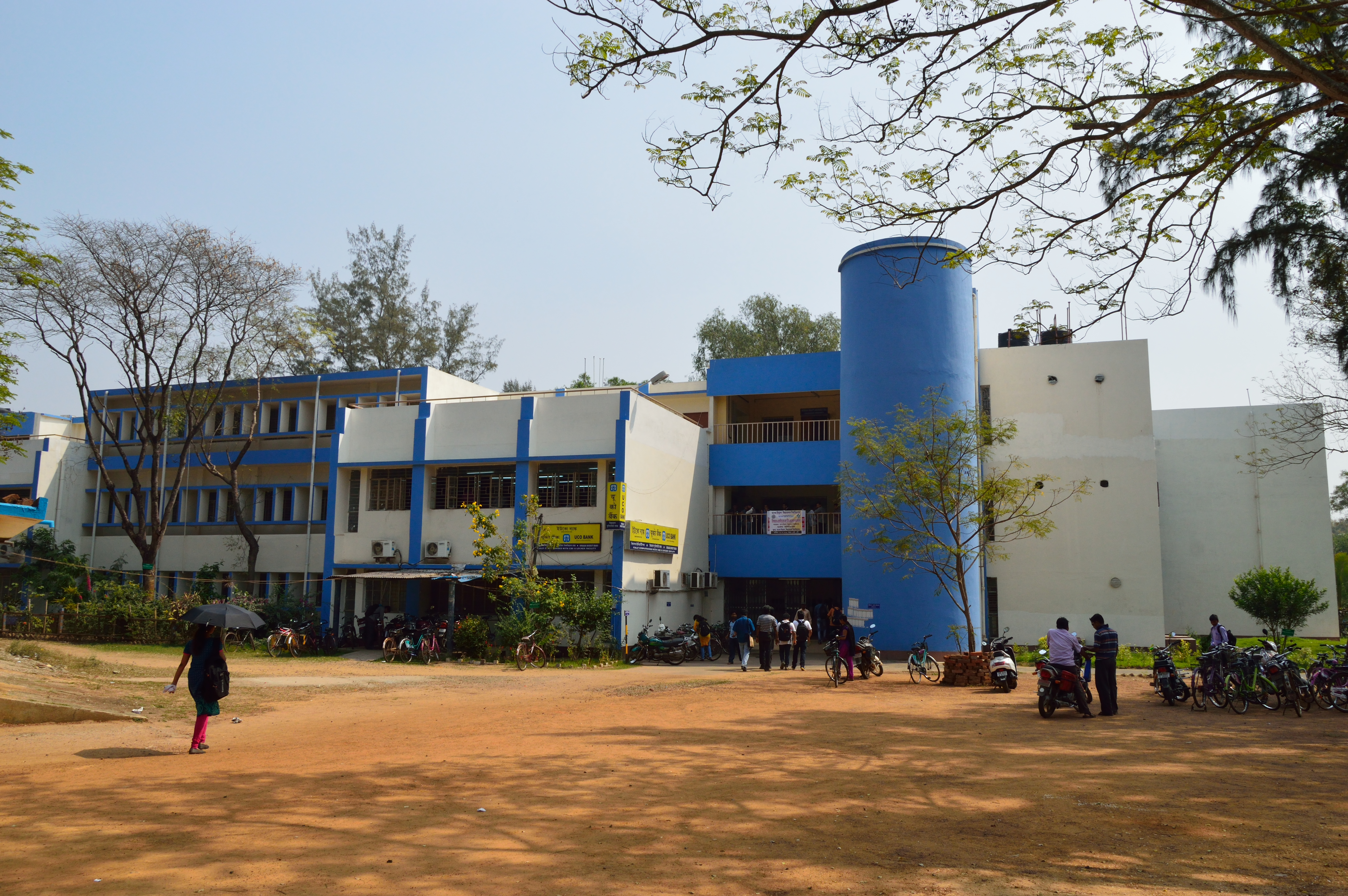 Photographed at the Vidyasagar University, West Midnapore.